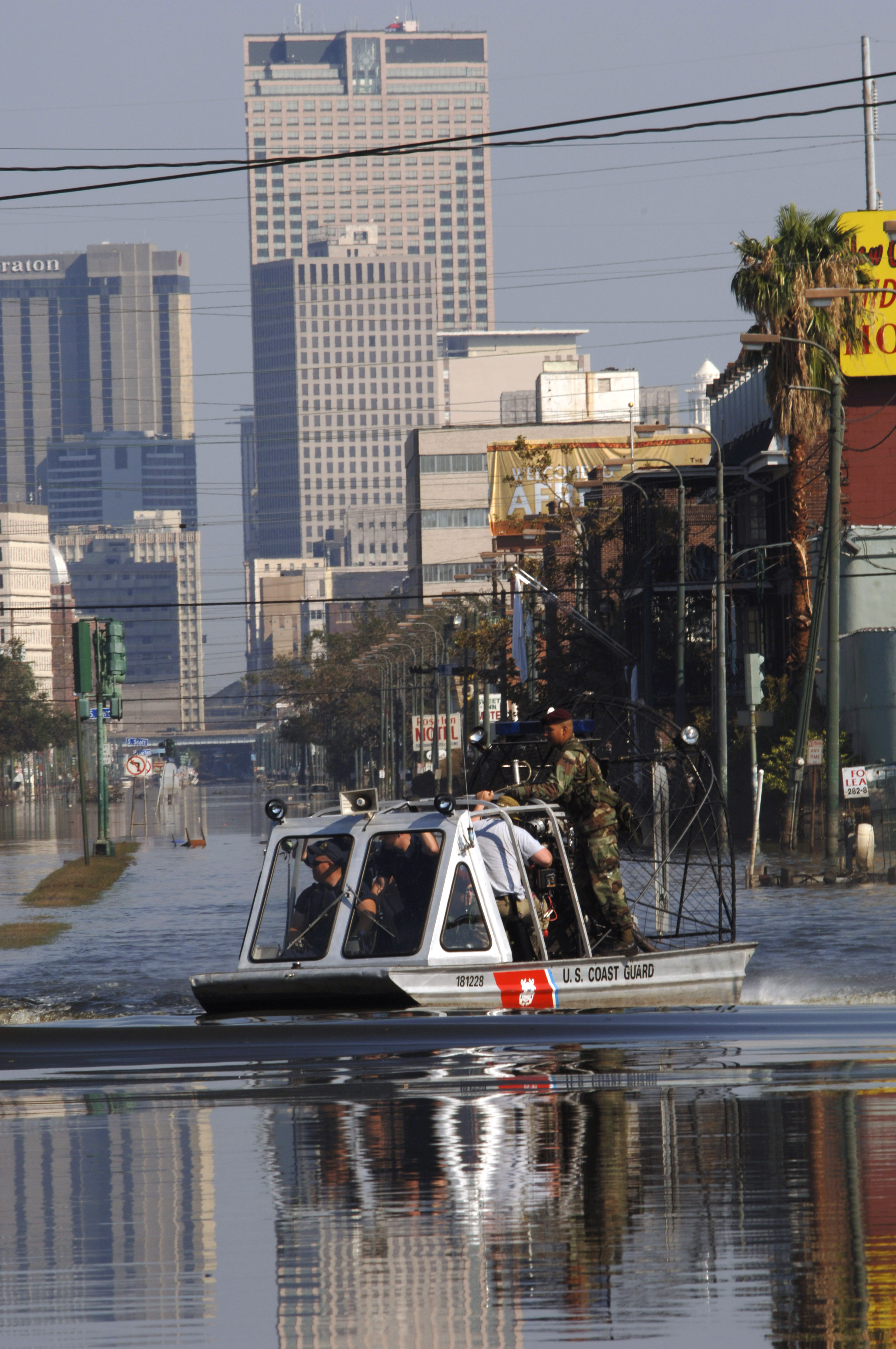 050912-N-5319A-008 New Orleans - A U.S. Coast Guard air boat navigates the flooded streets of New Orleans. The Navy along with the Army, Marines, Air Force, and Coast Guard has been mobilized to take part in Joint Task Force Katrina, a humanitarian assistance operation in a joint effort led by the Federal Emergency Management Agency (FEMA), in conjunction with the Department of Defense. (text by USN) Location is Tulane Avenue at Carrollton Avenue, Mid-City looking riverwards on Tulane. -- Infrogmation